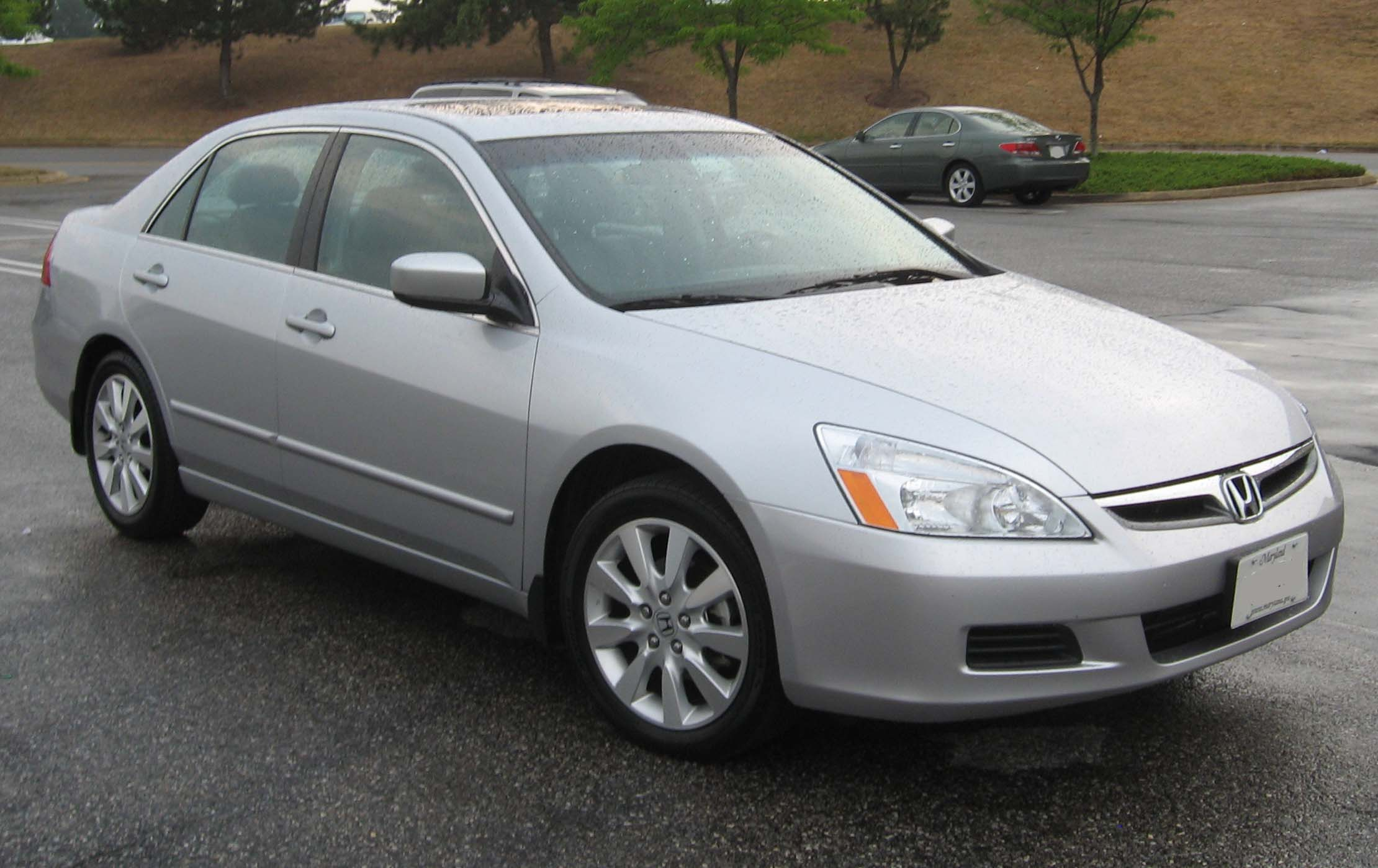 2006-2007 Honda Accord photographed in USA.